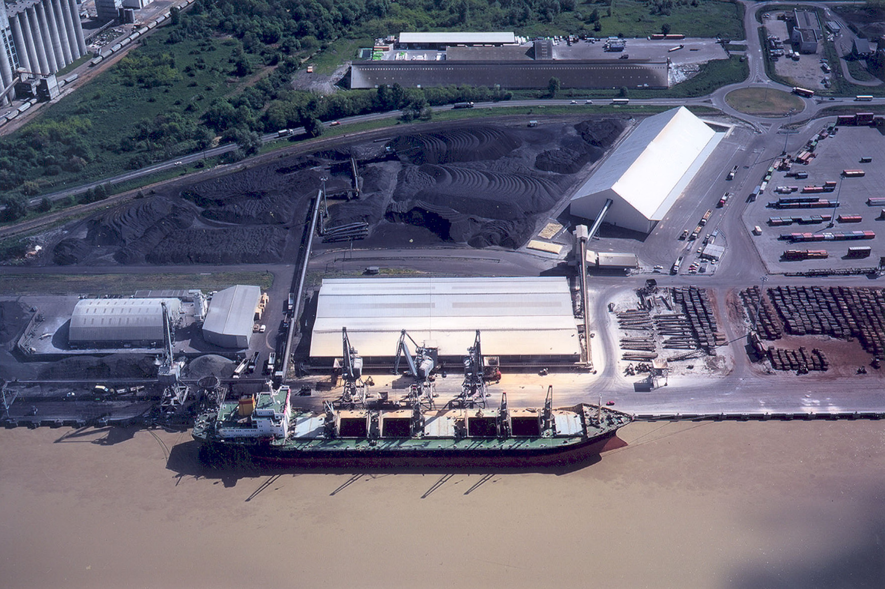 A bulk carrier is unloading in the Bassens haven, which is a subsidiary of Bordeaux port, France.